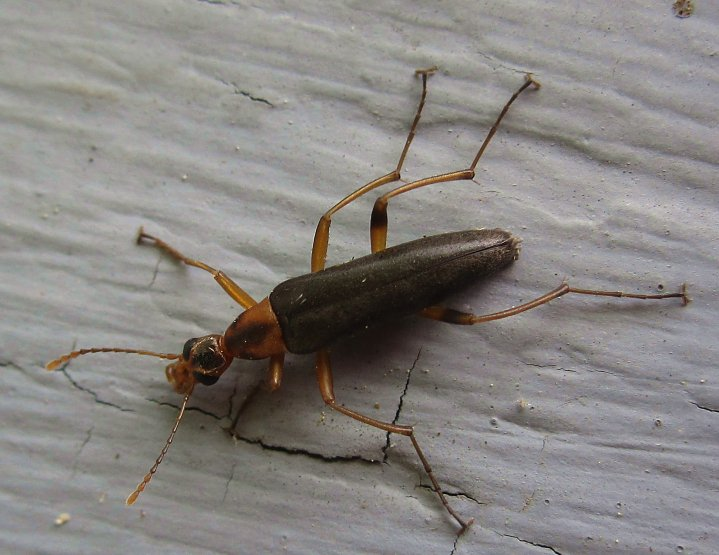 Cephaloon lepturides New Paltz, New York (May 22, 2010)